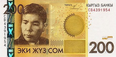 200 som 2010 obverse